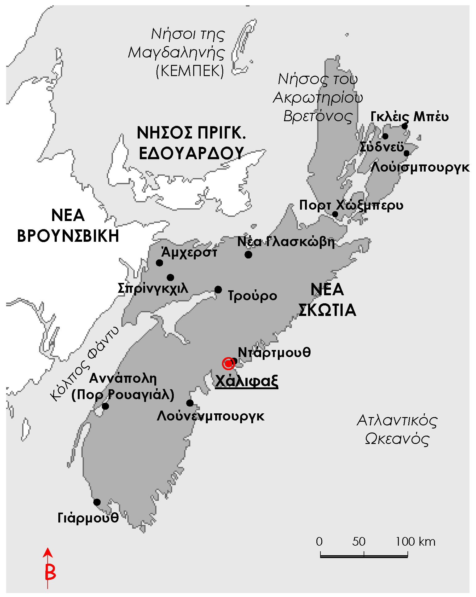 Greek map of Nova Scotia